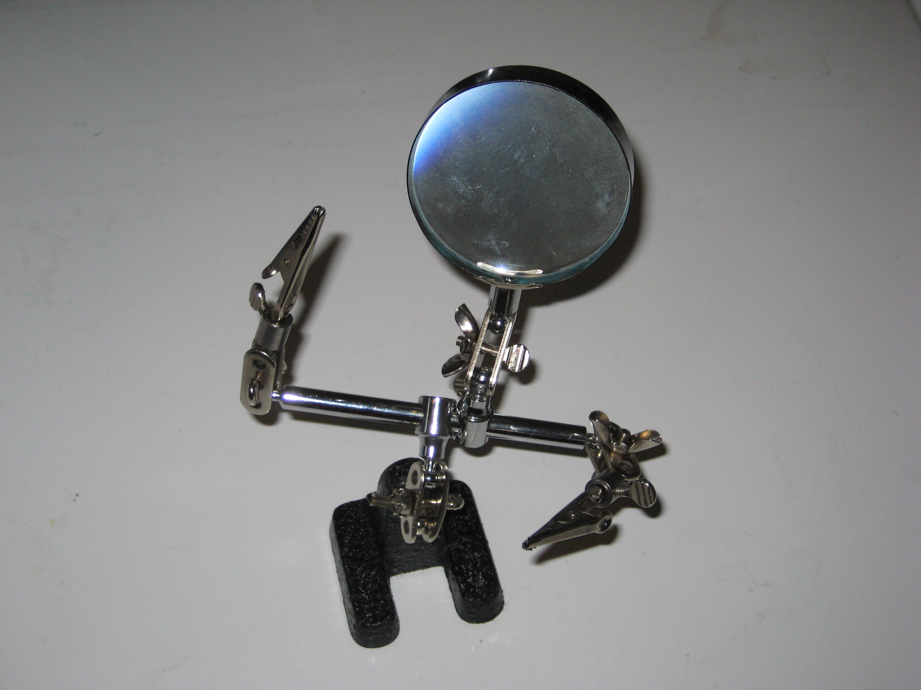 This image was created by me. I hereby release it into the public domain.